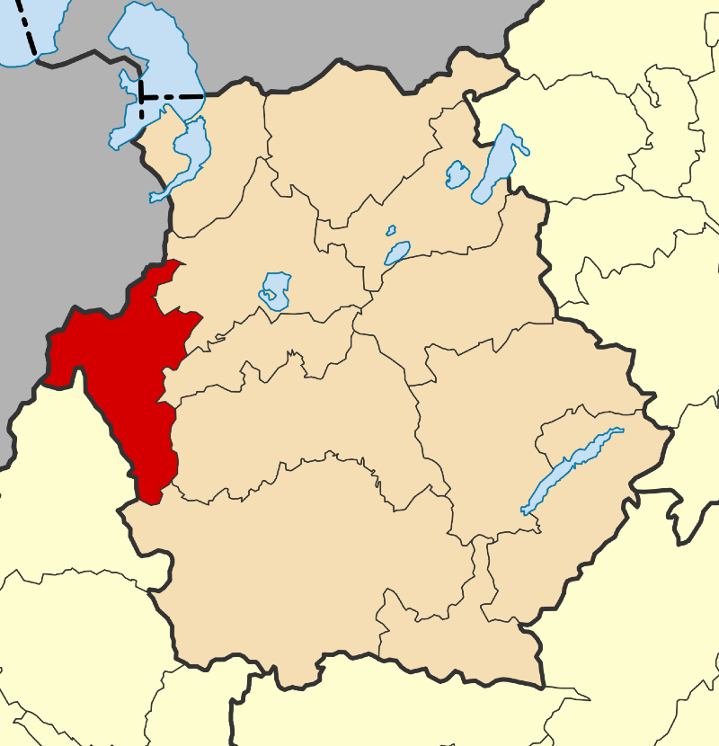 Locator map for Nestorio municipality in Greek region West Macedonia (2011)